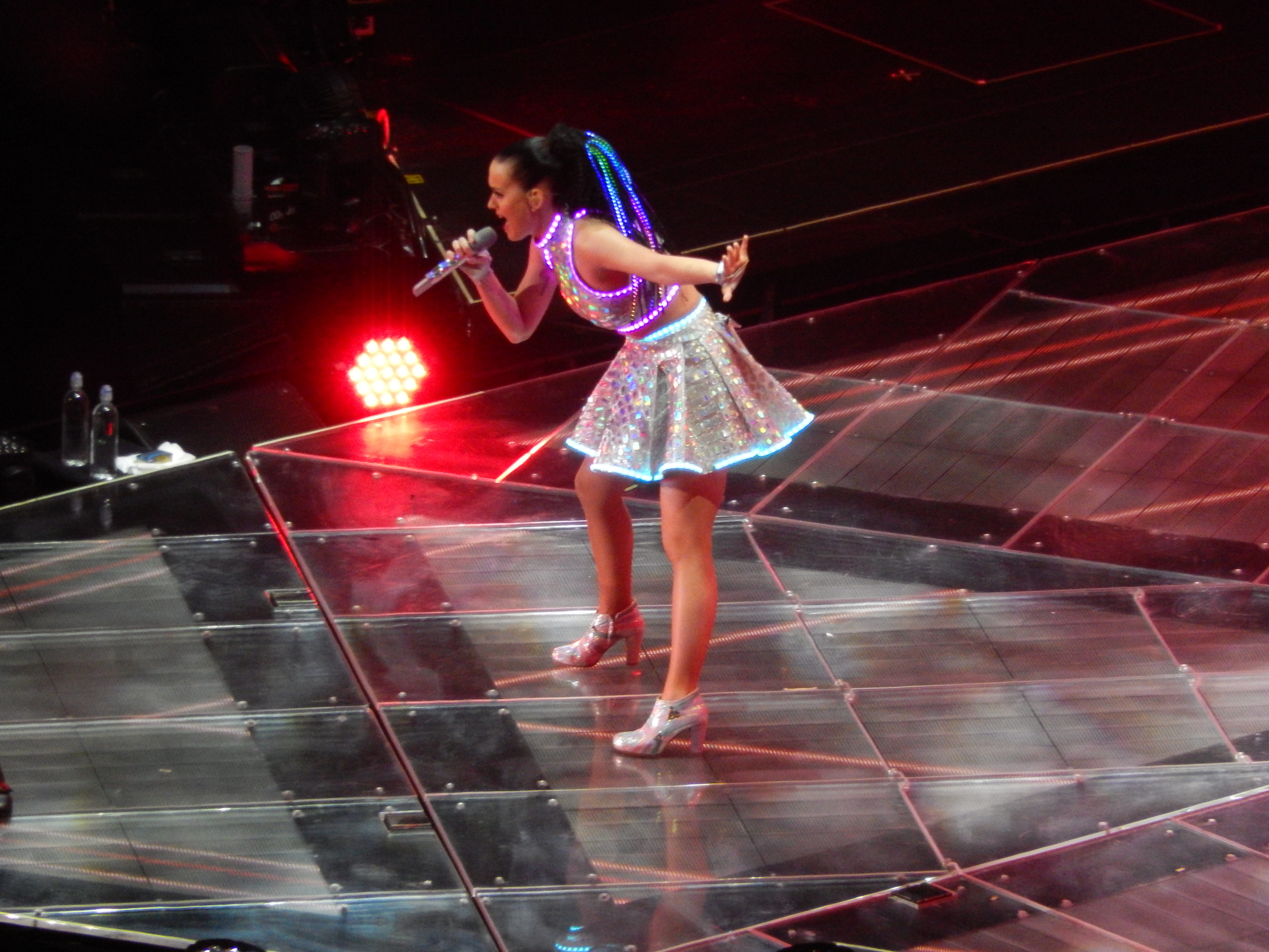 Katy Perry performing at Madison Square Garden, New York during the Prismatic World Tour on July 9, 2014.